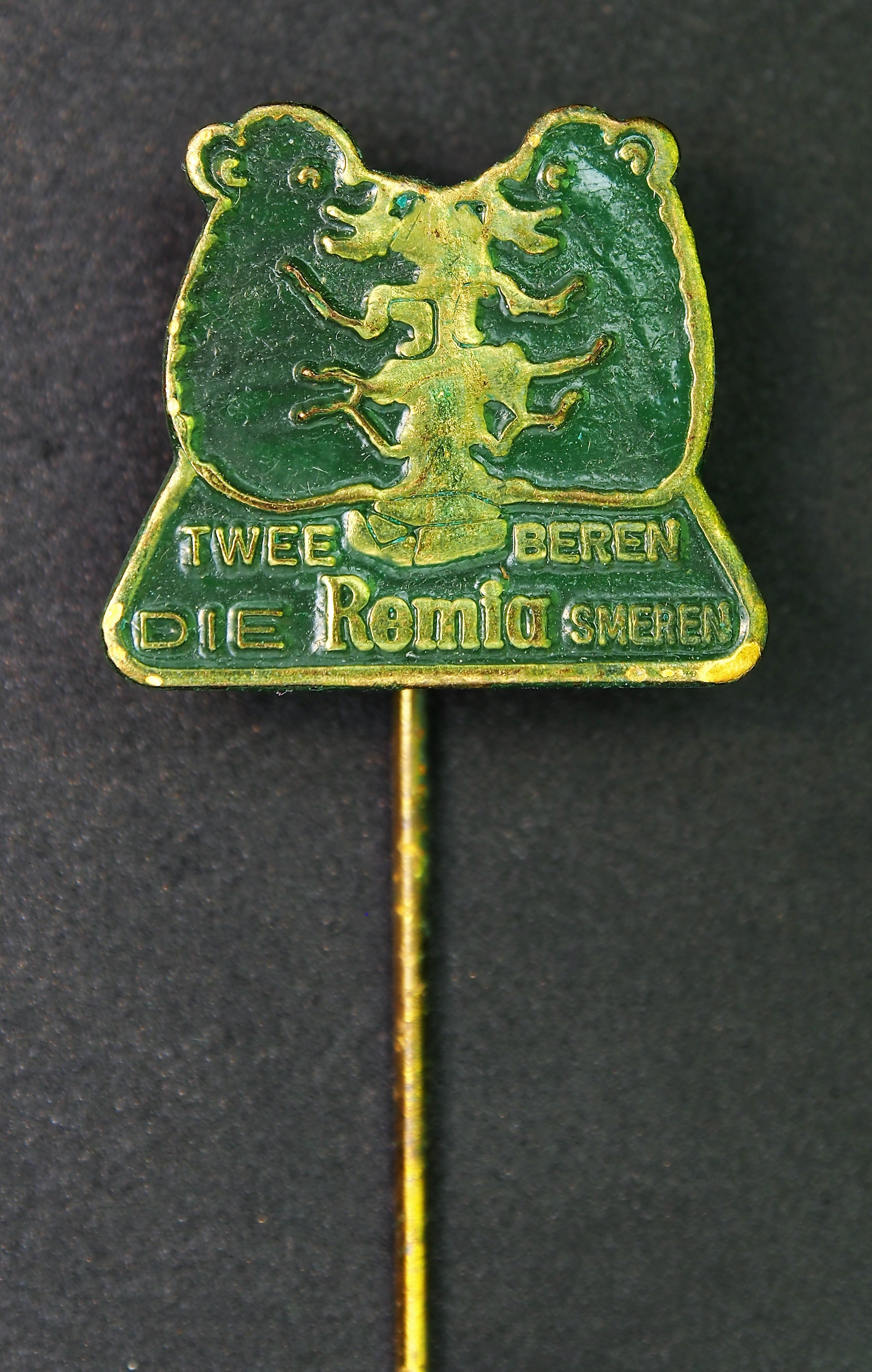 Advertising pin of an old (Dutch) product or brand.